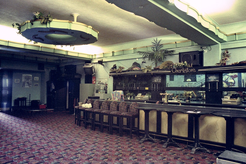 Downstairs bar in the State Cinema, Grays.